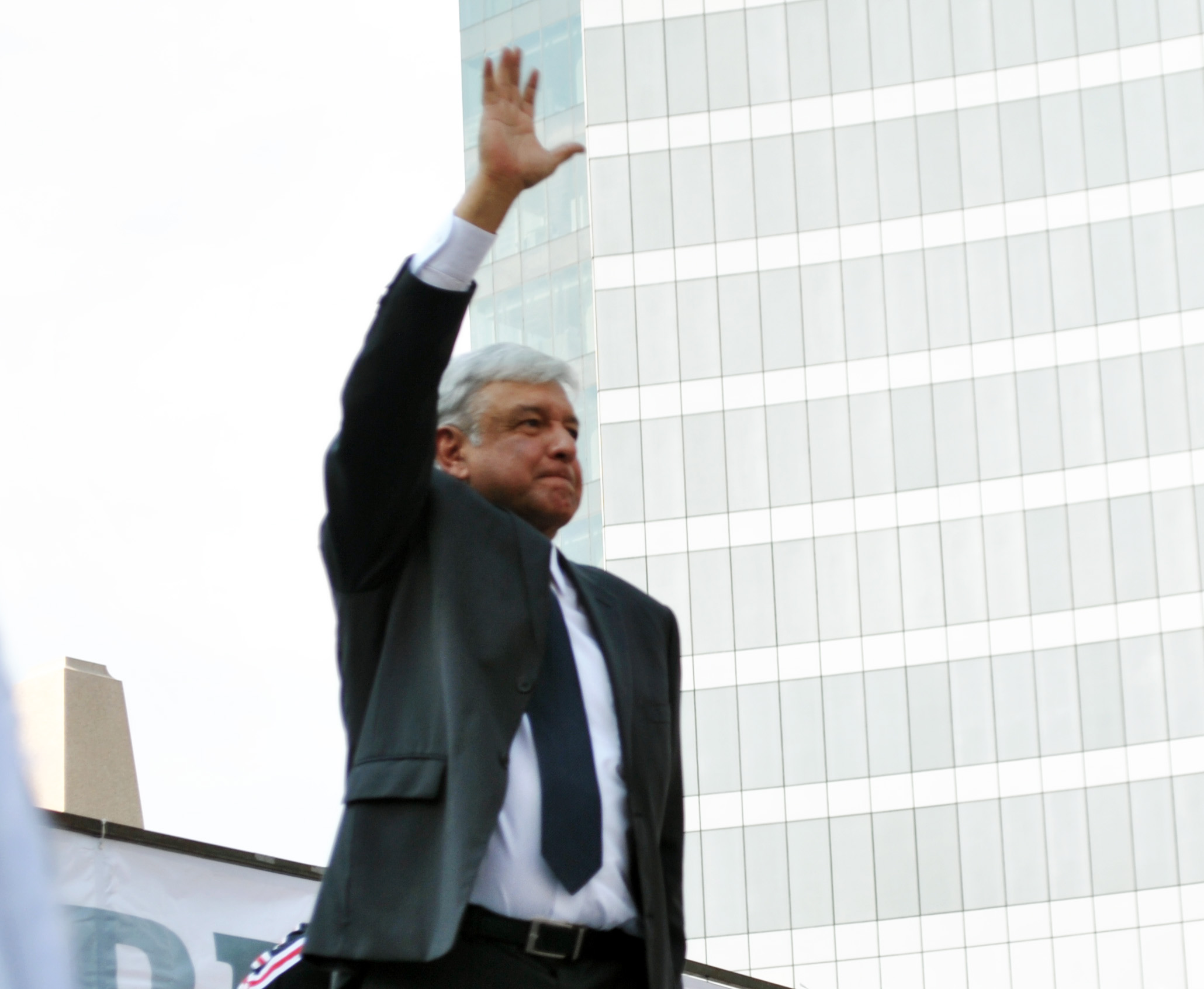 Andres Manuel Lopez Obrador in a rally at the Angel of Independence, for the swearing of Enrique Peña Nieto.